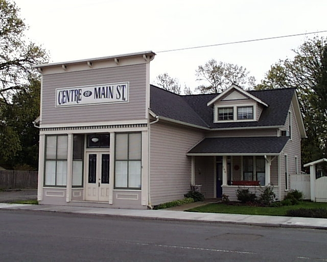 T.M. and Emma Witten Drug Store-House in Jefferson Oregon. On the National Register of Historic Places.